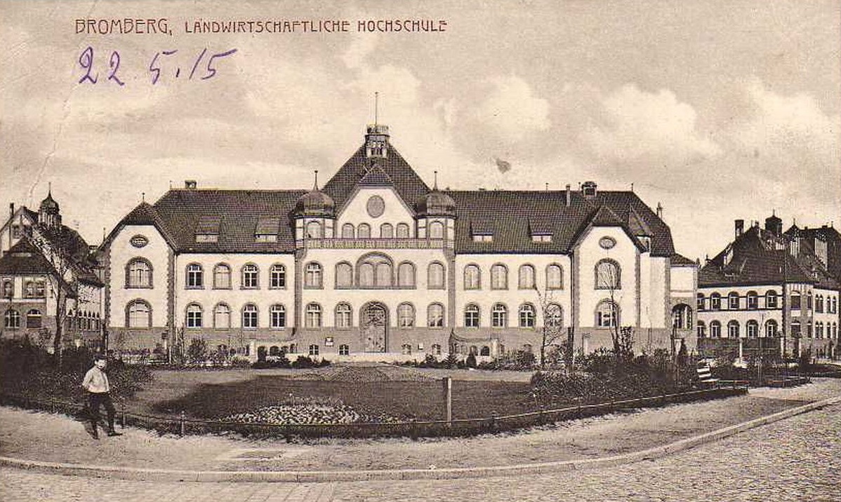 View 1915